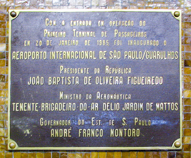 Inauguration plate of São Paulo/Guarulhos International Airport